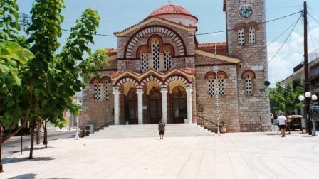 Merbaka Church (built ca. 1300), the Argolid, Greece Joseph P. Brennan 2002